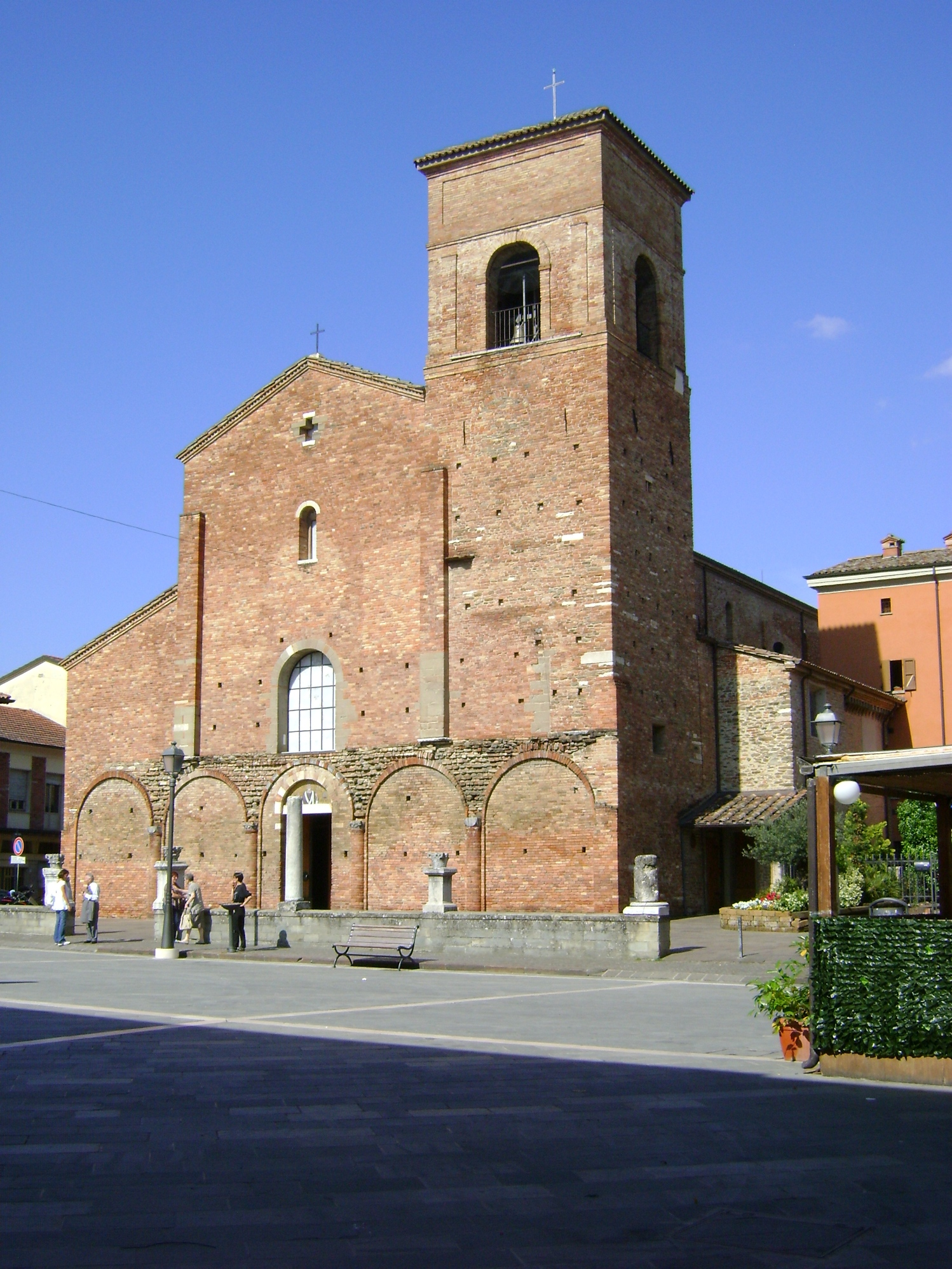 The Basilica of St. Vicinio in Sarsina, in the province of Forlì-Cesena, Emilia-Romagna